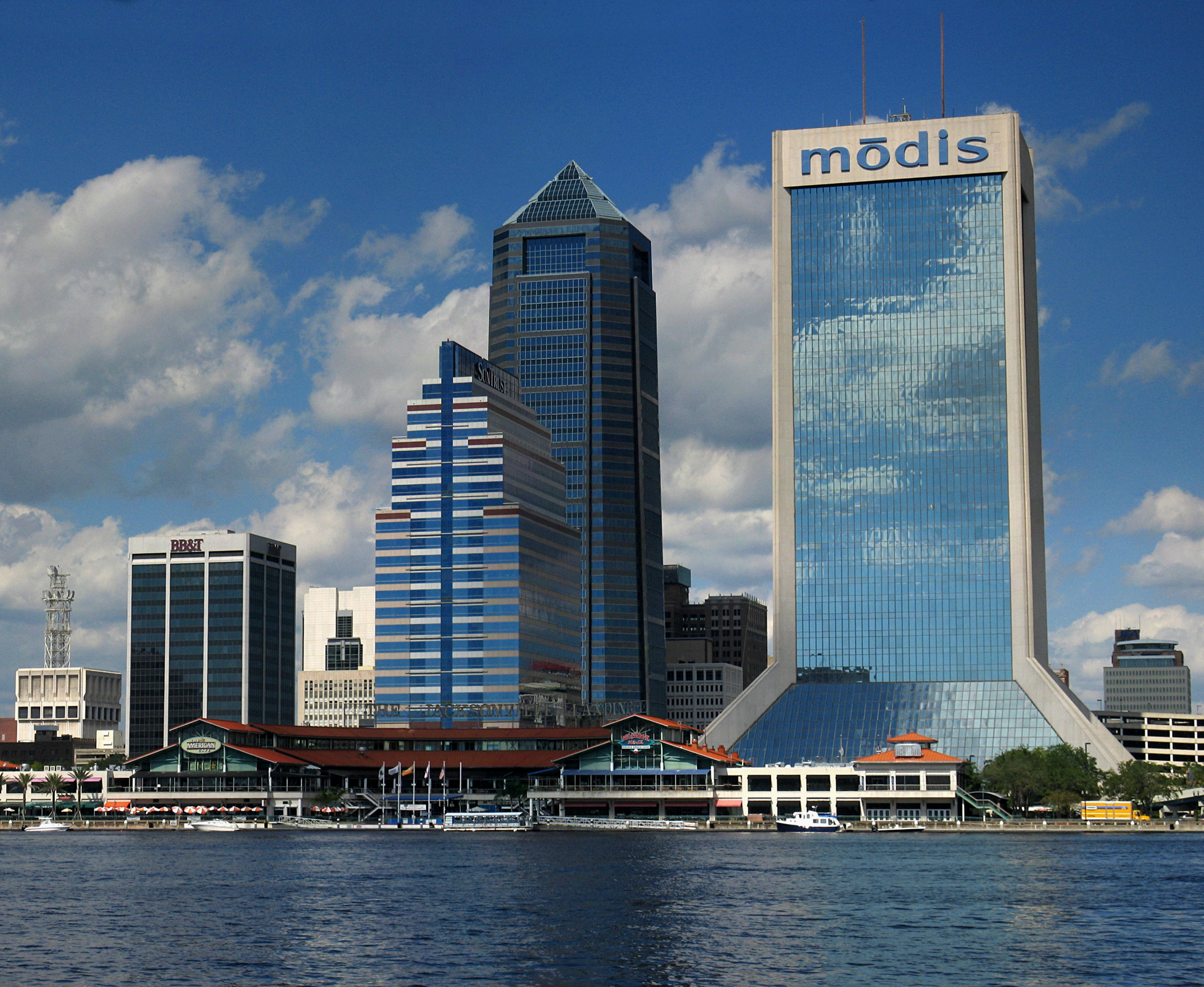 Panorama of Jacksonville city skyline from across the St. Johns river in Jacksonville, Florida, USA. The buildings from left to right are the the Suntrust, the Bank Of America, and the Old Independent Life Building (MODIS). Stitching by JaGa